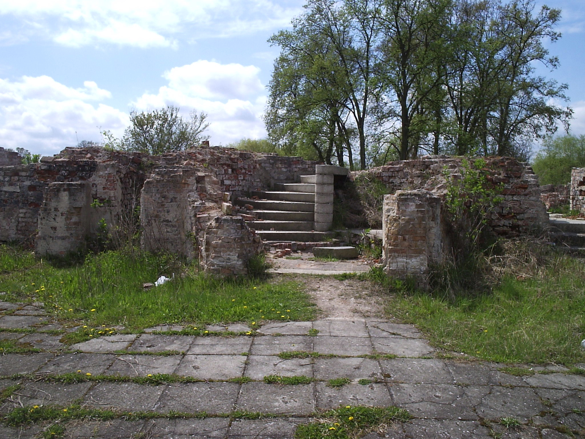 Castel - Kostrzyn nad Odrą, Poland